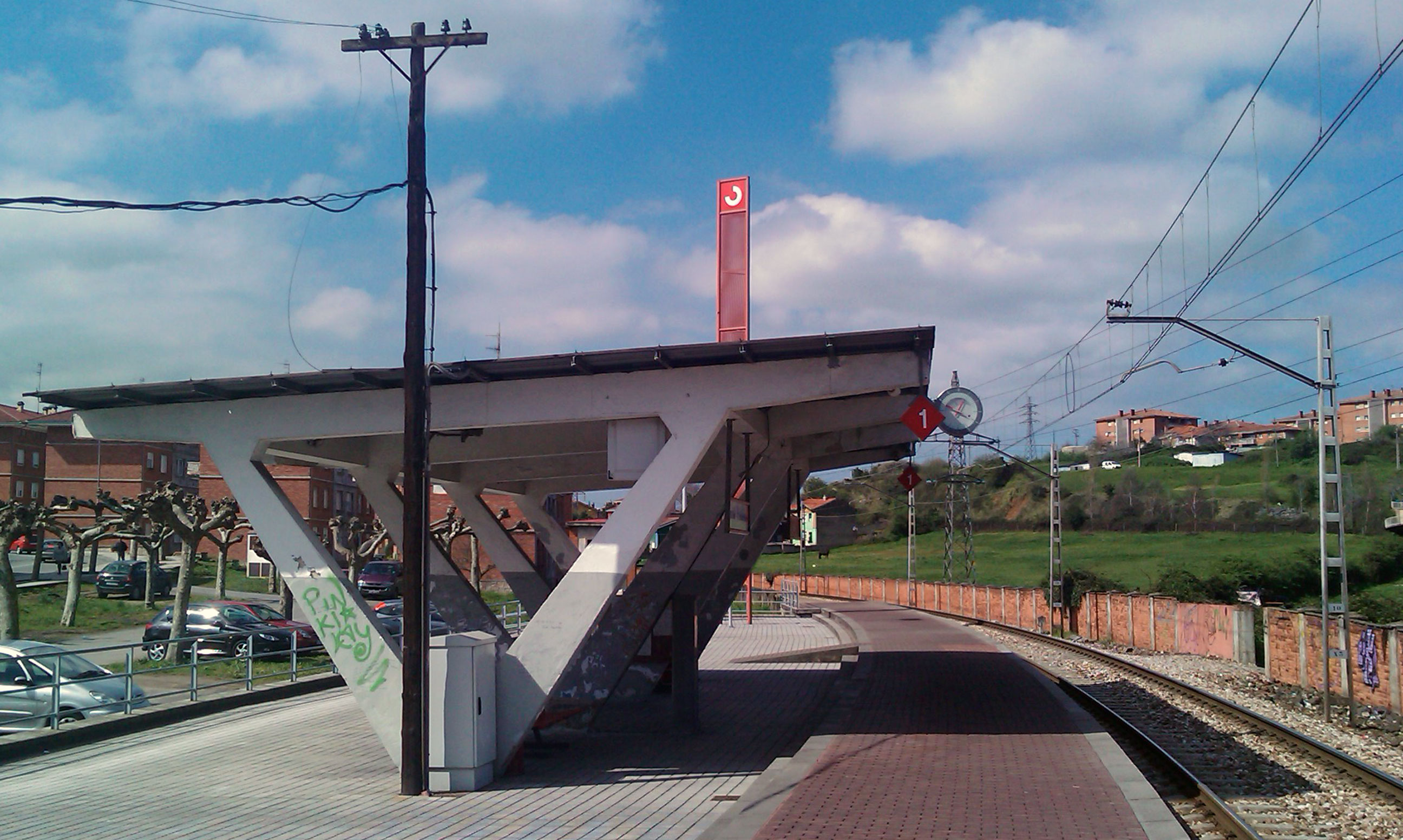 Railway stop named La Rocica in Avilés, Asturias, Spain.